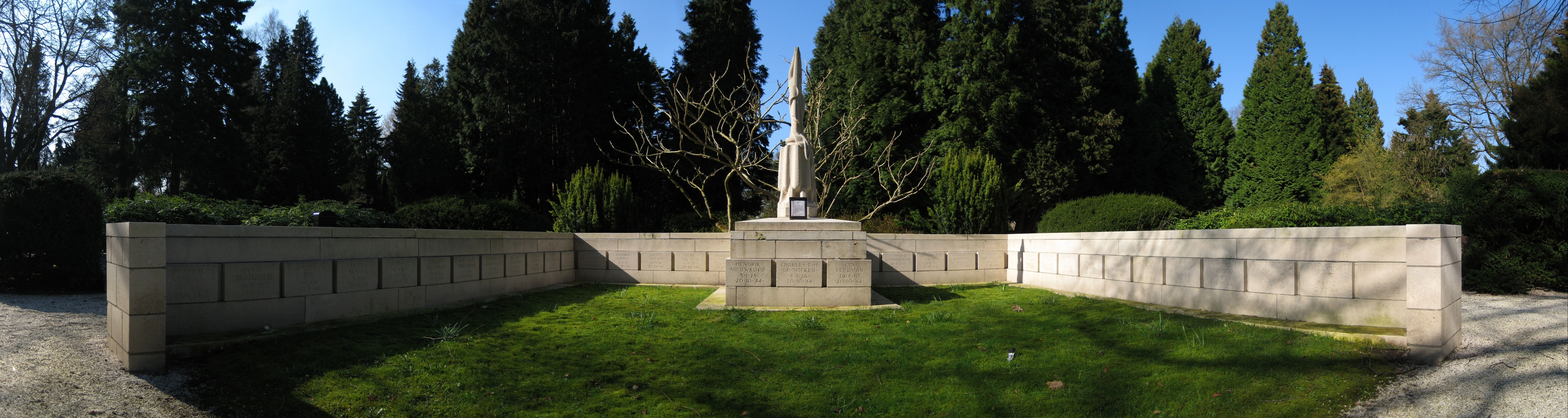 Second World War memorial at the Esserveld cemetery in the Dutch city of Groningen.